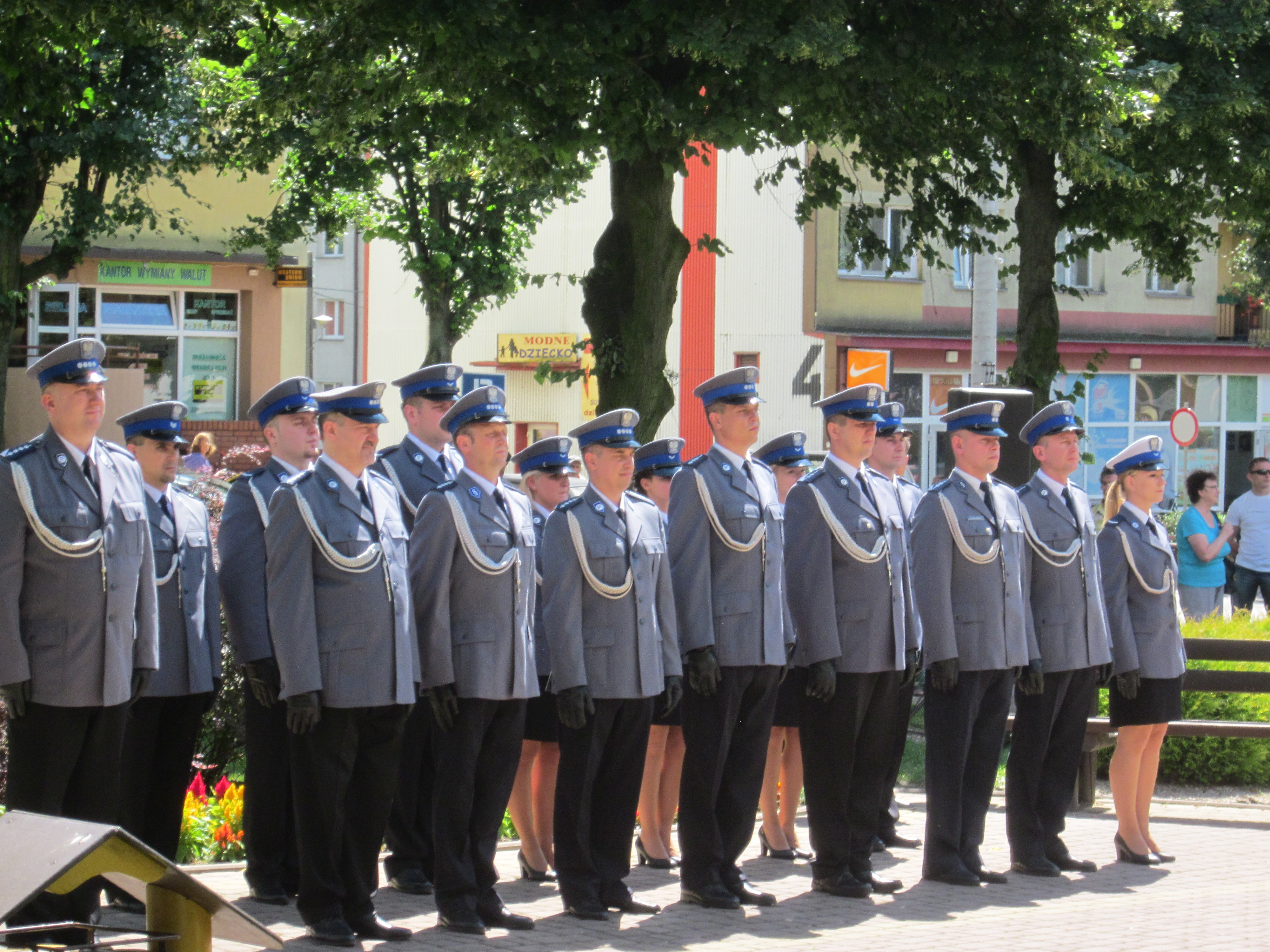 Police holiday in Mońki - 2014